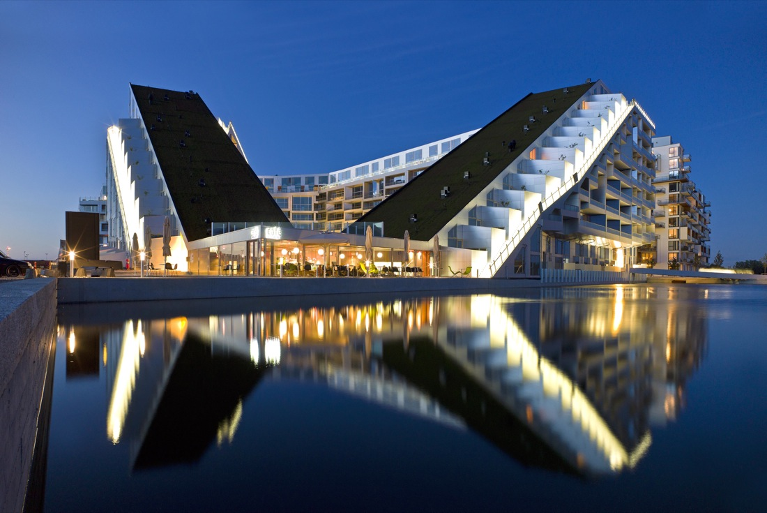 8 House by Bjarke Ingels Group in the Ørestad district of Copenhagen, Denmark